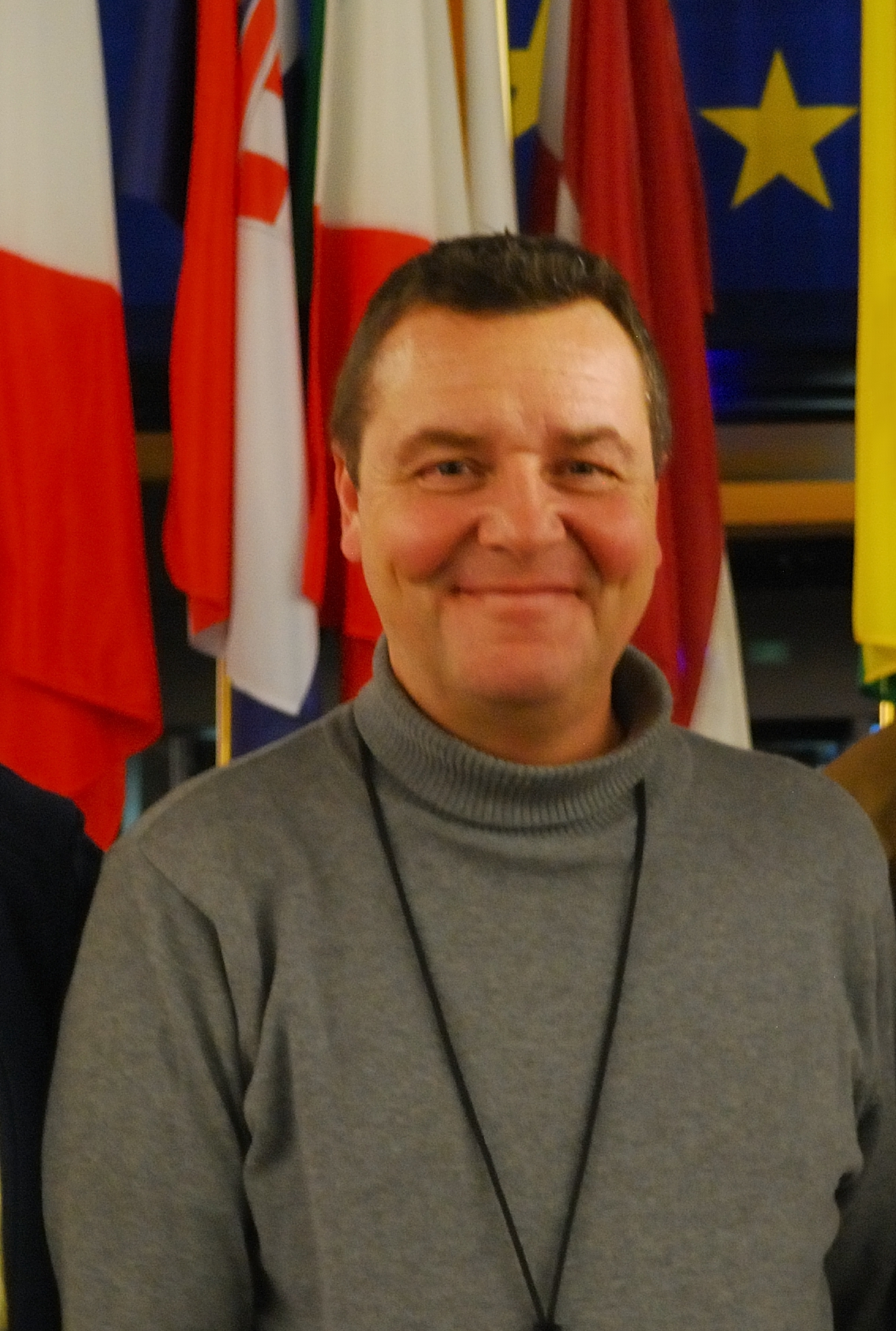 Portrait of MEP Mark Demesmaeker after a tour of the Parliament building at Strasbourg. Subject of portrait gave oral permission on the spot for publication on Wikipedia. Nikon D60 f=28mm f/4.5 at 1/4s ISO 800. Processed using Nikon ViewNX 2.1.2 and GIMP 2.6.12.